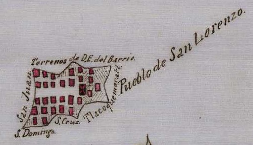 Closeup of San Lorenzo Xochimanca on 1897 map of Municipality of Tacubaya, Mexican Federal District